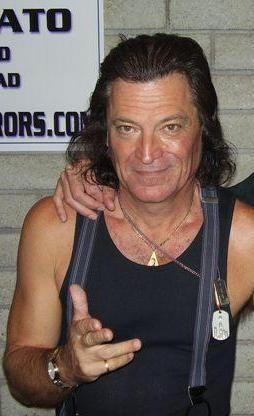 Joseph Pilato - Actor, famous for his performance as captain Rhodes in George A. Romero's 1985 classic zombie film Day Of The Dead.